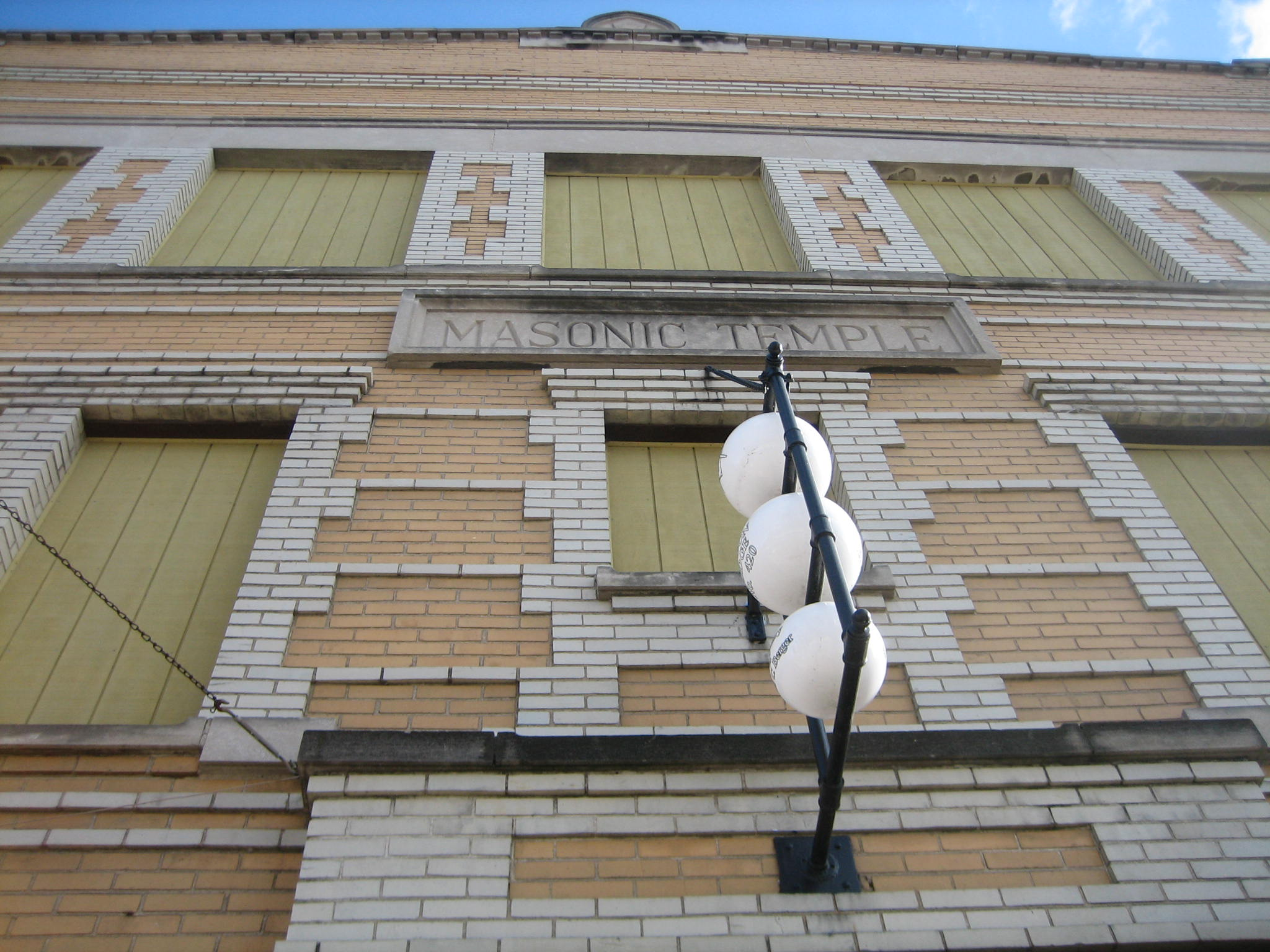 Masonic Lodge Temple, 117-119 S. Fourth St., part of the Oregon Commercial Historic District, Oregon, Illinois. National Register of Historic Places.